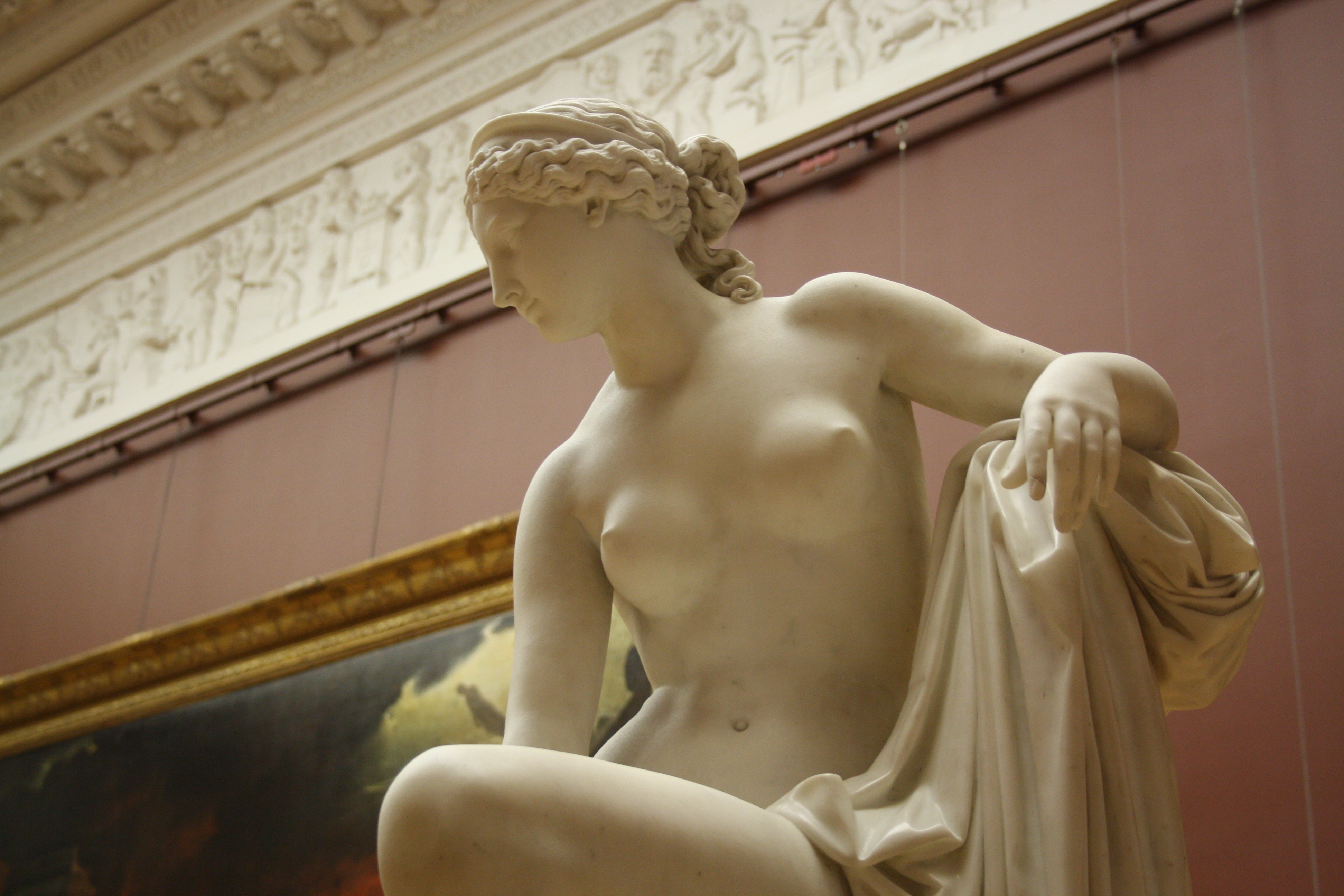 Ivan Vitaly. "Venera" 1852. State Russian Museum, St. Petersburg, Russia